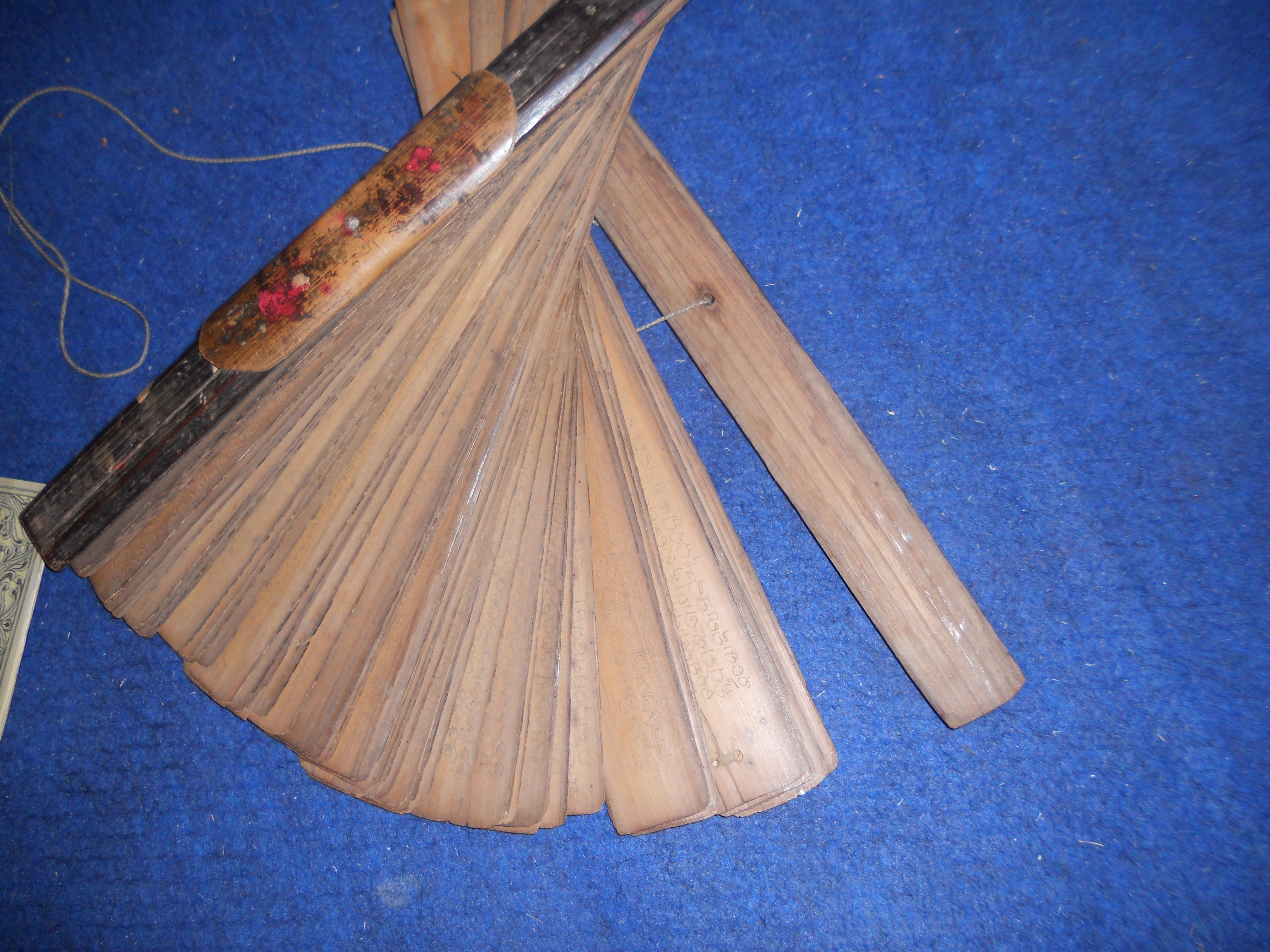 Original palm leaf manuscript written in Odia (Oriya) language of more than 1000 years old.